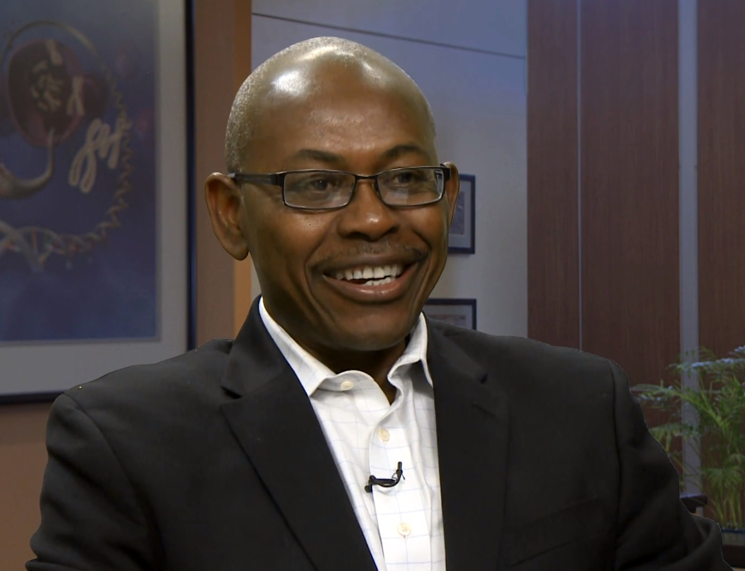 For more than two decades, Charles Rotimi, Ph.D., chief of the Metabolic, Cardiovascular and Inflammatory Disease Genomics Branch at the National Human Genome Research Institute (NHGRI), has studied the causes of complex diseases and health disparities. This oral history traces a path from Dr. Rotimi’s early work studying lung and stomach cancer at Ford Motor Company in Cleveland, Ohio, to his work on Human Heredity and Health in Africa, an NIH initiative to develop large-scale population studies by African researchers on African populations. Dr. Rotimi’s oral history also offers insights into the complexities of community engagement and the importance of international scientific efforts. NHGRI’s Oral History Collection features discussions with influential figures in the field of genomics and about the history of institute. Intended for researchers and scholars, each oral history contains information about science and medicine, biographical details and insights into the inner workings of the institution and its initiatives. For more information, visit NHGRI’s History of Genomics Program at Transcript: Check out NHGRI's Oral History Collection at